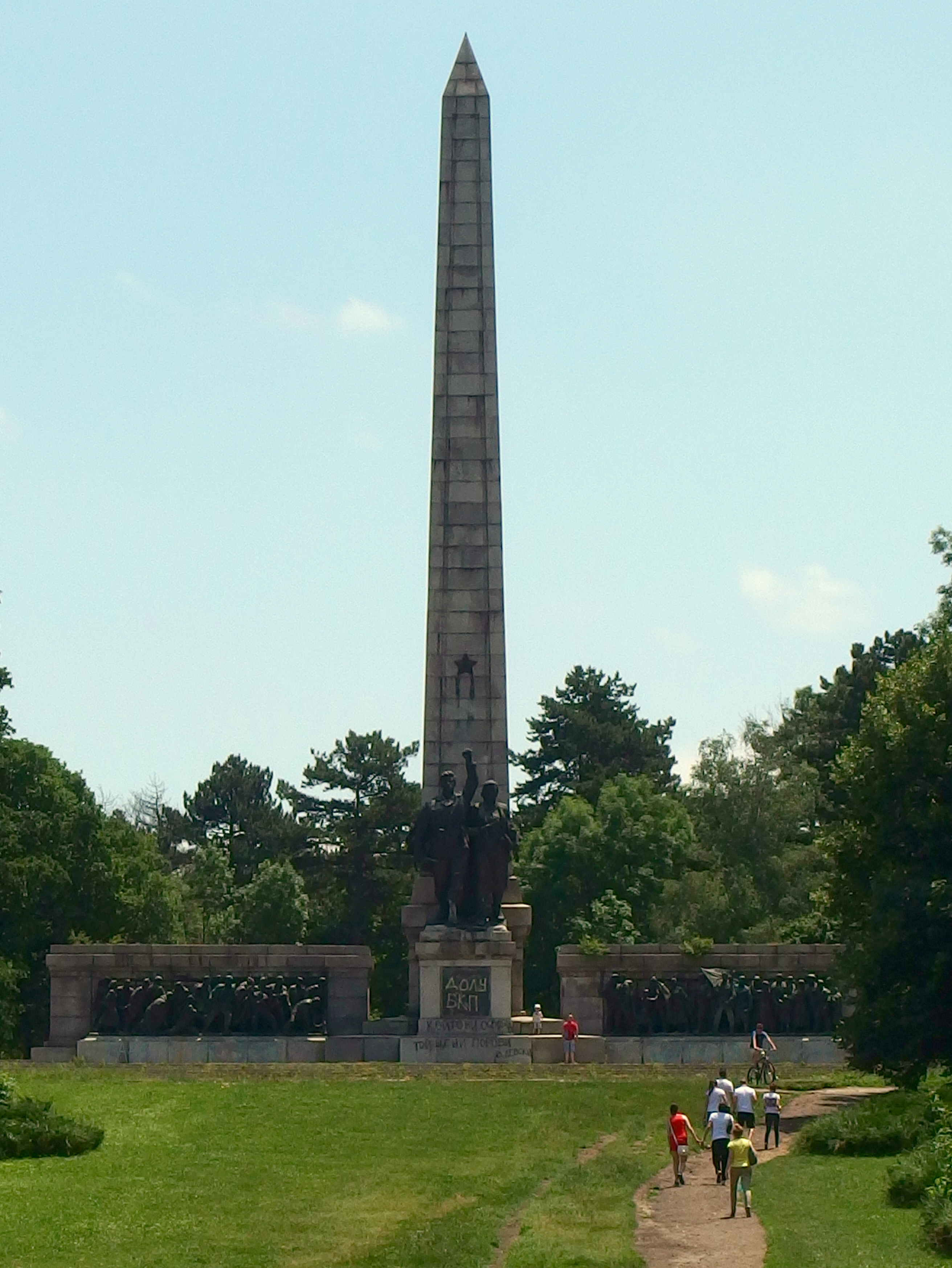 2014-06-15 in Sofia.